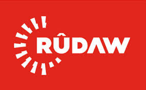 Rudaw